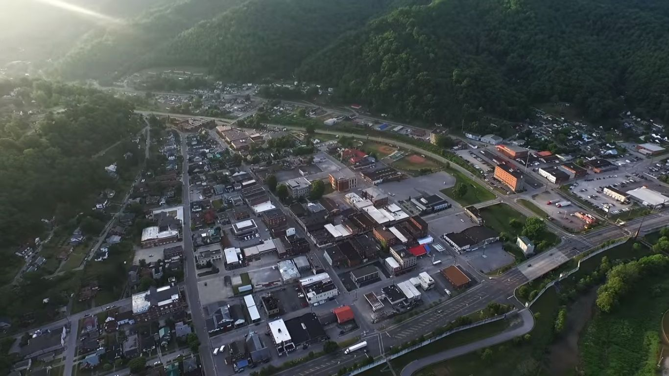 This photo depicts downtown Harlan, Kentucky in Spring of 2015.